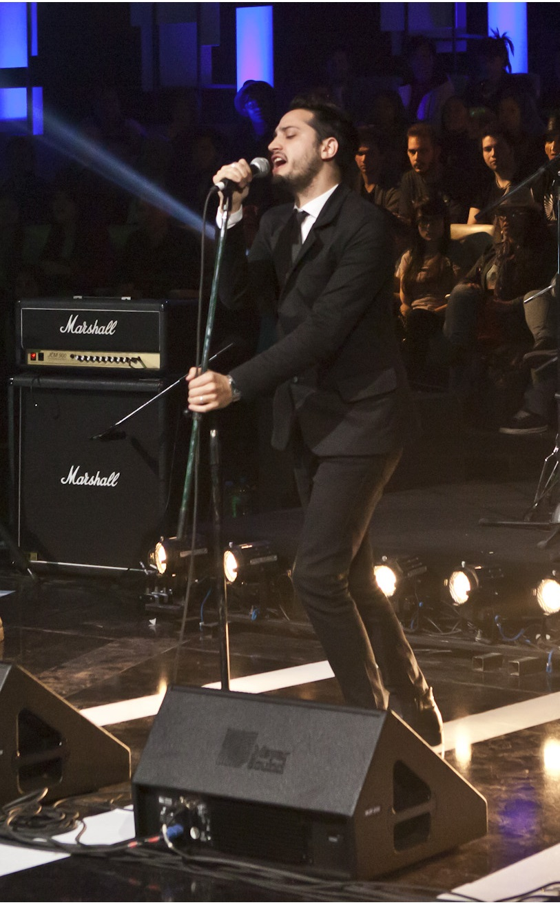 Buenos Aires, 4 de noviembre de 2014 - El Ministerio de Cultura de la Nación, la TV Pública y Radio Nacional Rock realizaron un homenaje a Gustavo Cerati.Fito Páez, Ricardo Mollo, Charly García y Catupecu Machu son algunos de artistas y grupos que grabaron versiones de temas creados por el fundador de Soda Stereo. En el programa "Siempre es hoy", Argentina celebra la obra de Gustavo Cerati.Fotos: Romina Santarelli / Ministerio de Cultura de la Nación.